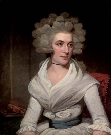 Sir Martin Archer Shee portrait Anna Margaretta Larpent in a white dress with a blue sash. Guess at 1800??